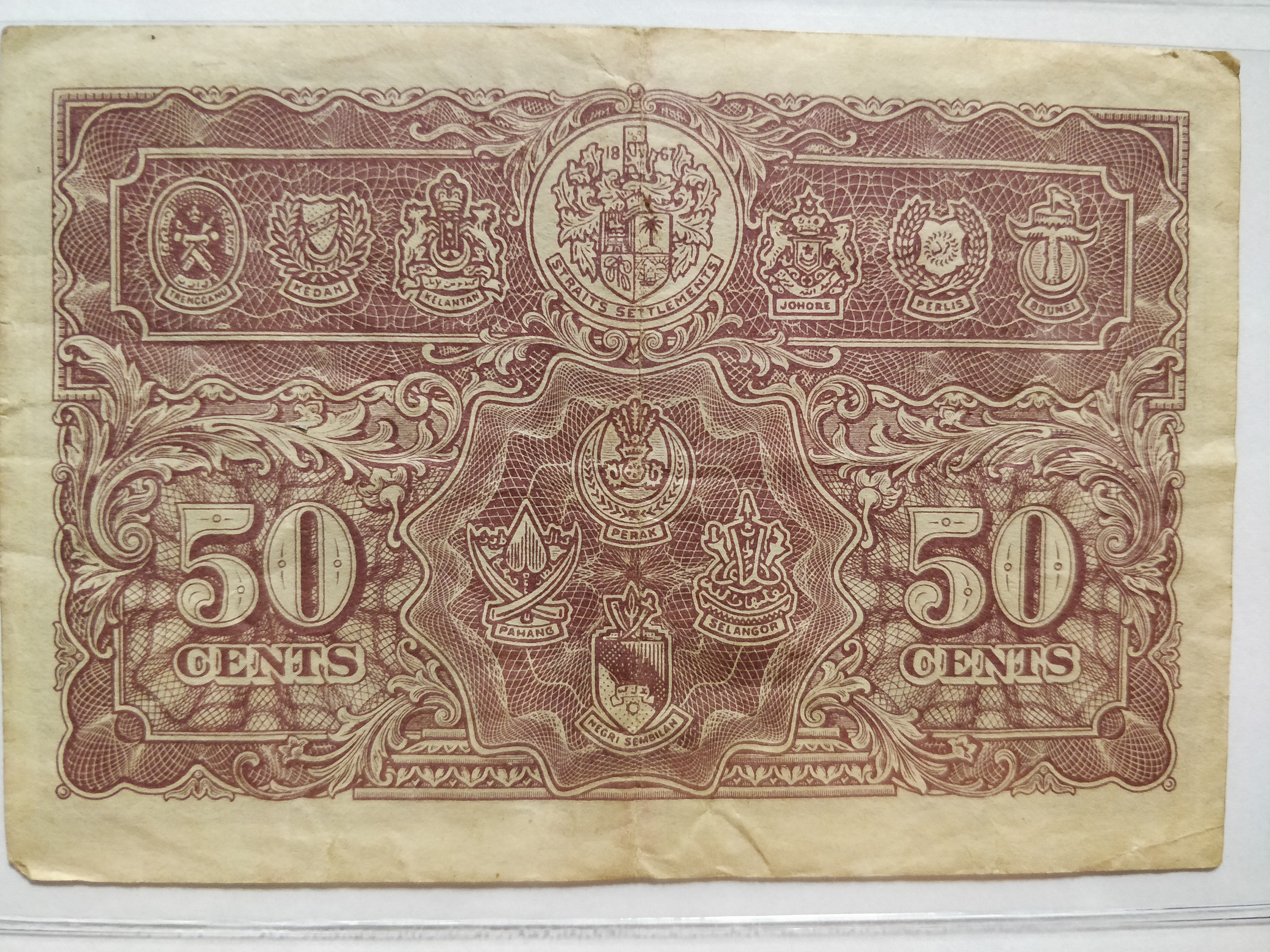 Malayan Dollar Note, 50 cent, Reverse 1st July 1941